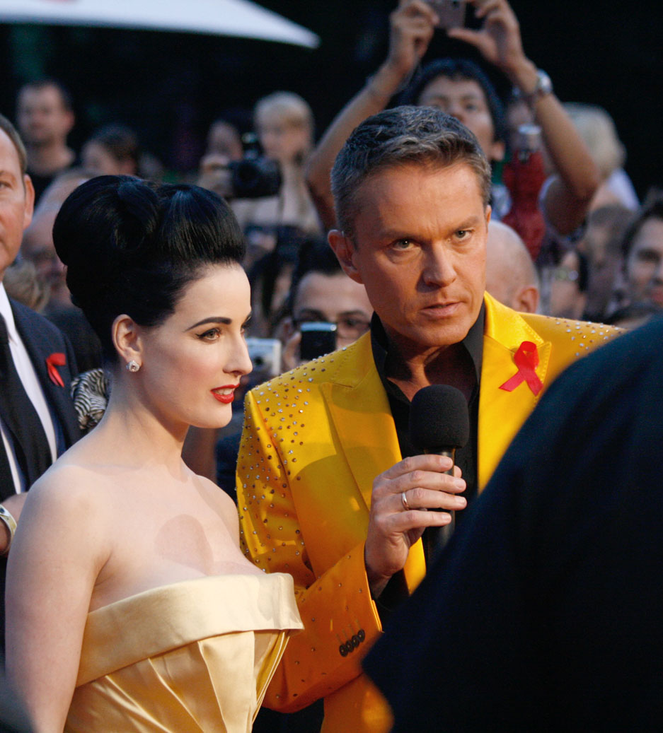 Dita von Teese and Alfons Haider on the red carpet of the Life Ball 2010.